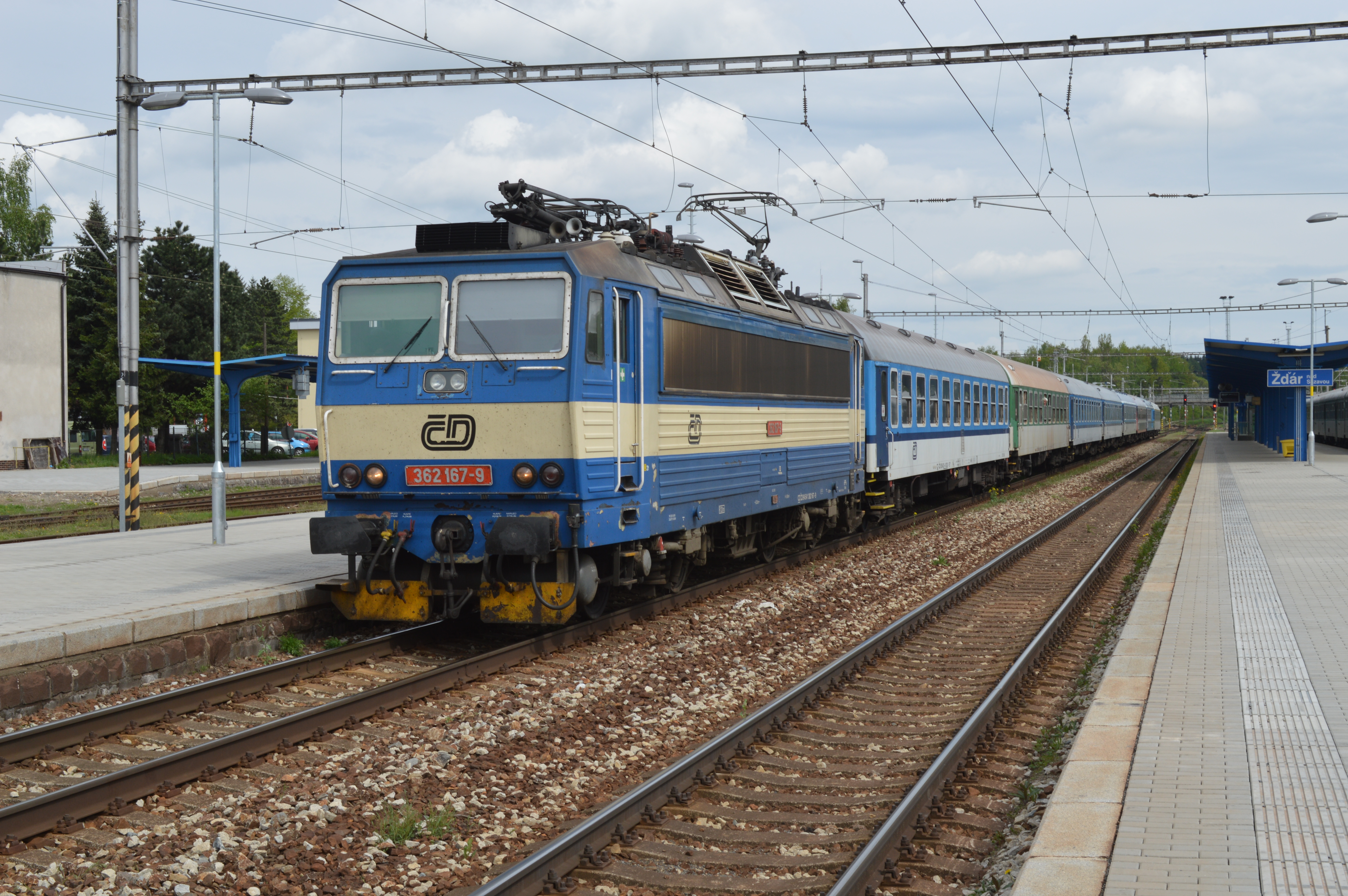 2013 Czech Republic Trip Day Two On 12 May 2013, 362.167 works train R680, 14:20 Brno hl.n. to Praha-Smichov seen during its station stop at Žďár nad Sázavou.